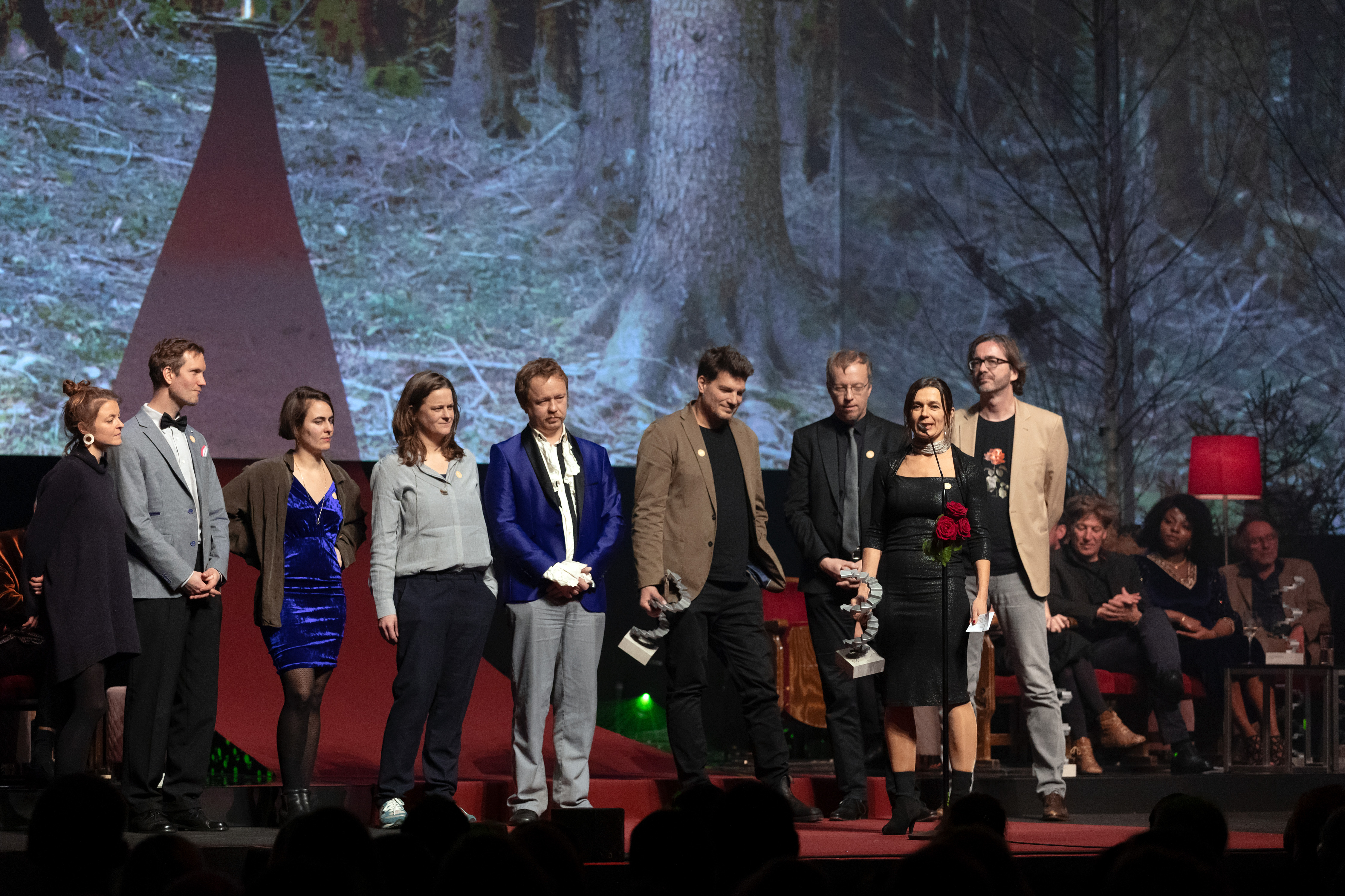 Production teams of the documentary films "Erde" and "Inland" at the award ceremony of the Austrian Film Awards 2020 (Auditorium Grafenegg at Grafenegg Castle, Lower Austria,Austria).